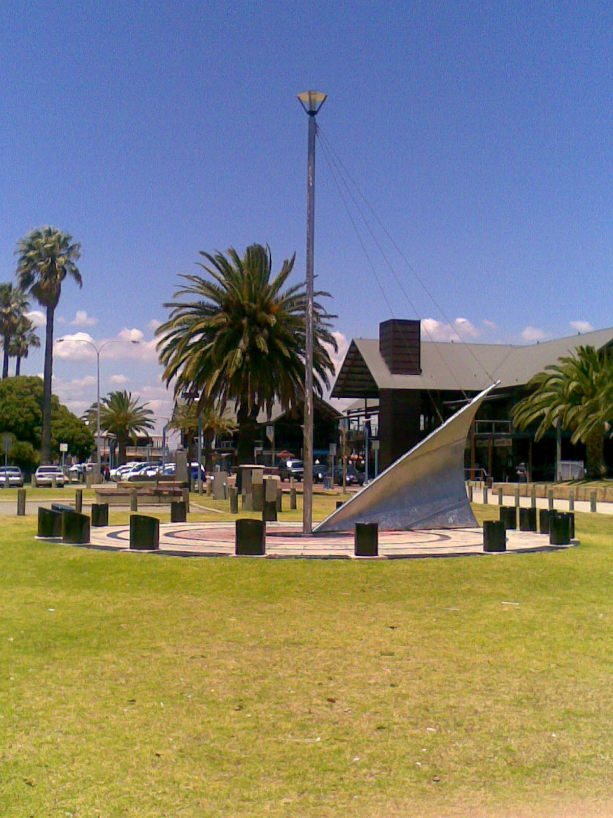 Picture of the Willem de Vlamingh memorial in Perth at the Barrack street jetty.